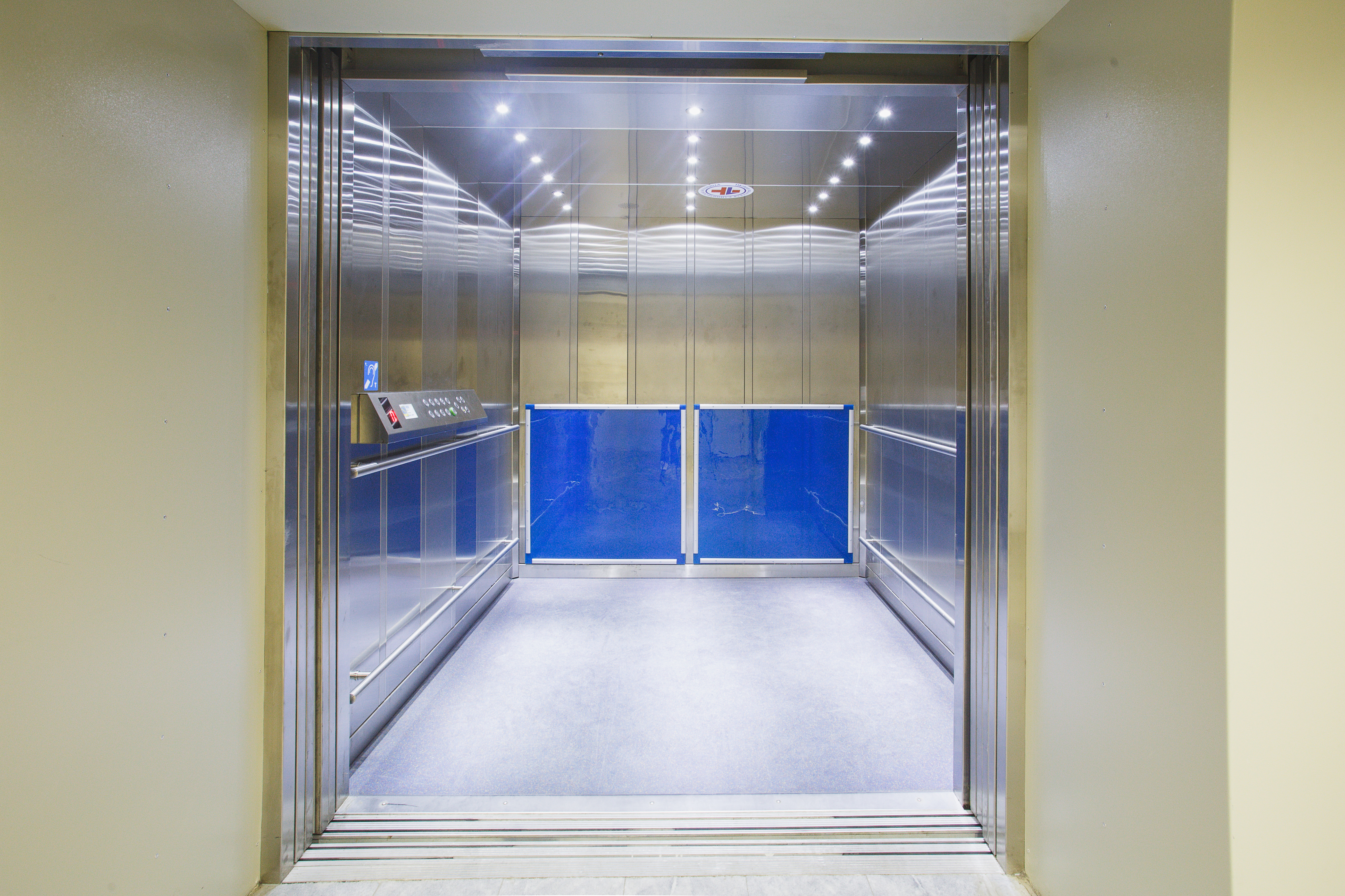 VEK Elevator in Sverdlovsk Oblast Clinic No1 (Yekaterinburg)